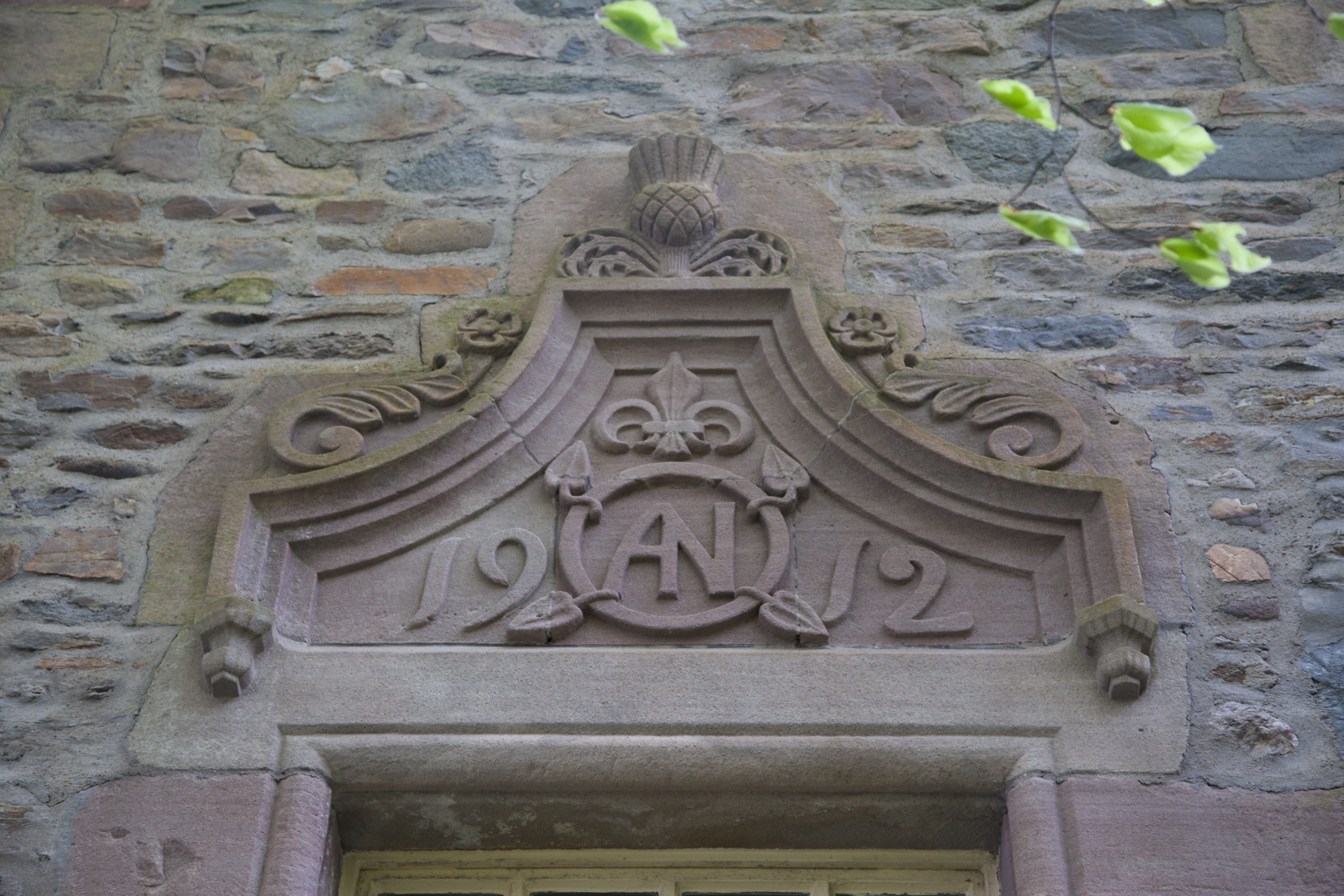 Dunderave Castle Wikidata has entry Q1265565 with data related to this item.